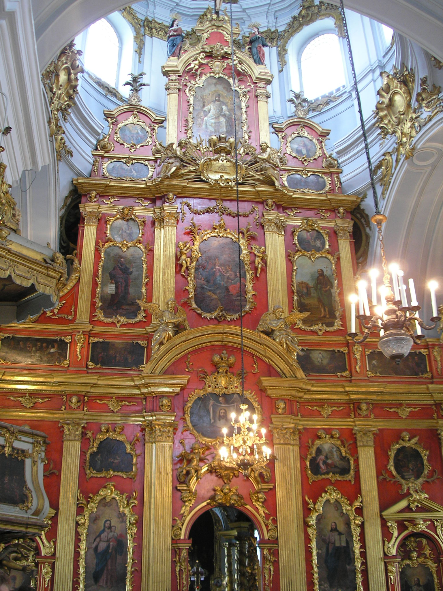 The iconostasis in the St. Andrew's Church in Kiev, Ukraine.